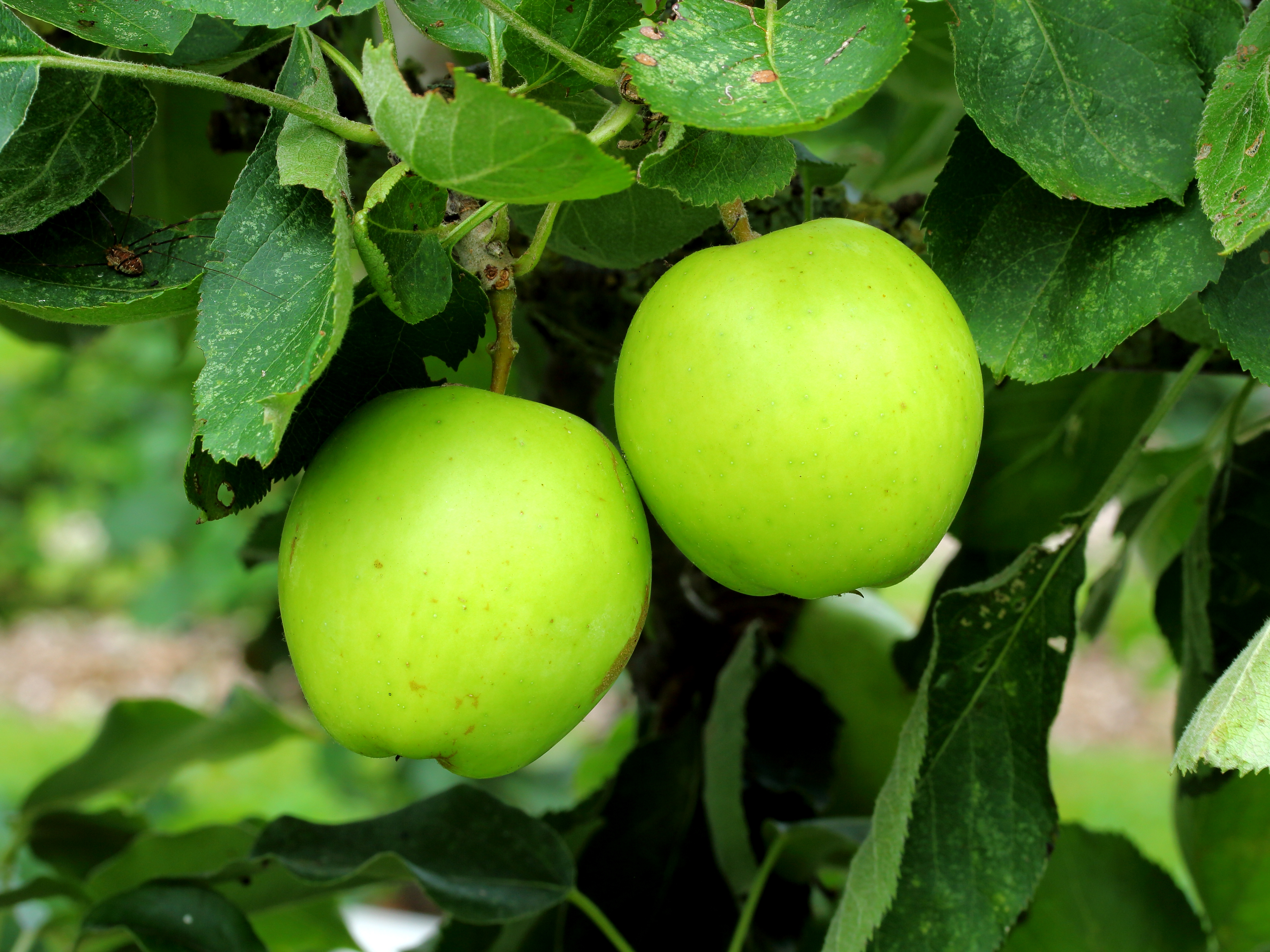 Malus domestica Manks Codlin Location De Kruidhof.